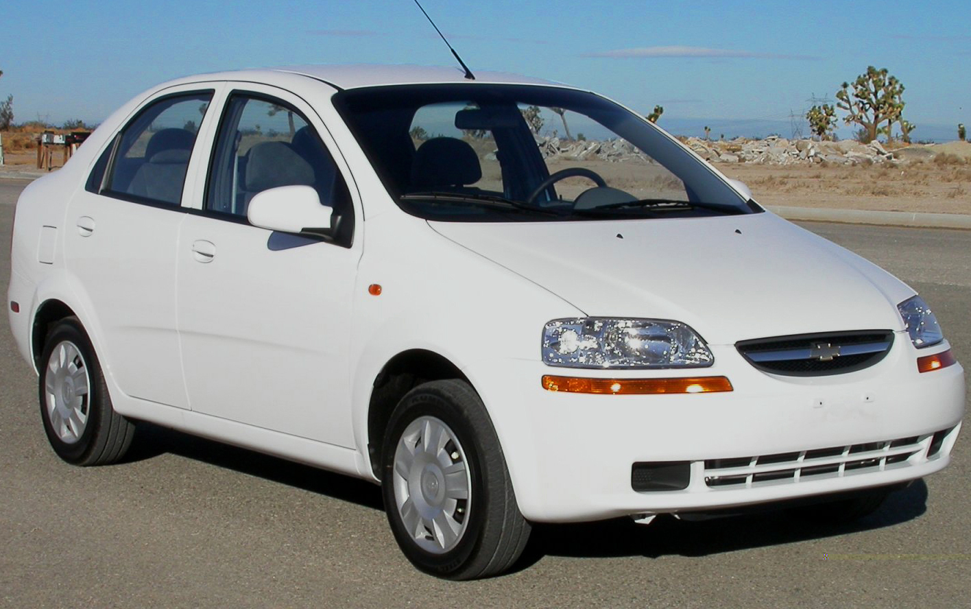 2004 Chevrolet Aveo photographed in USA.